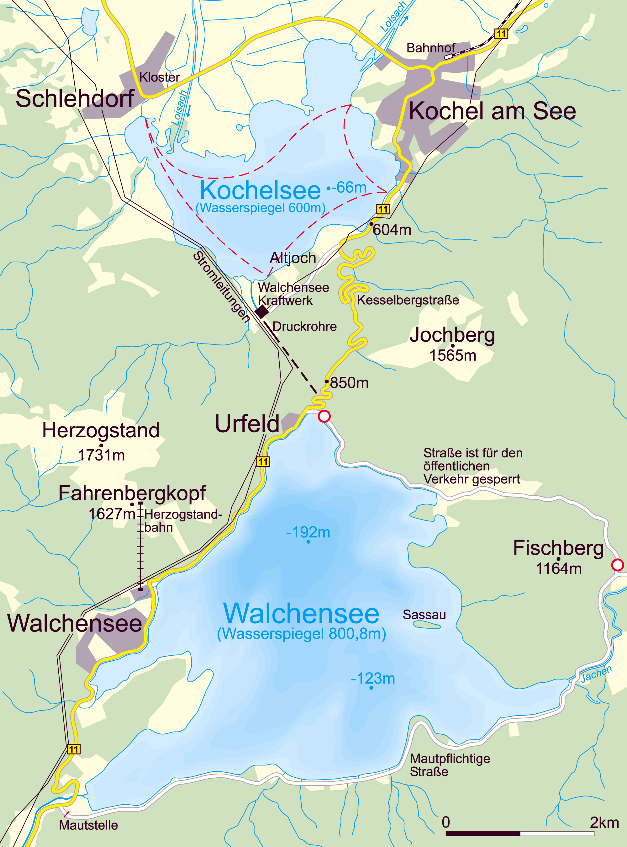 Walchensee and Kochelsee in Upper Bavaria